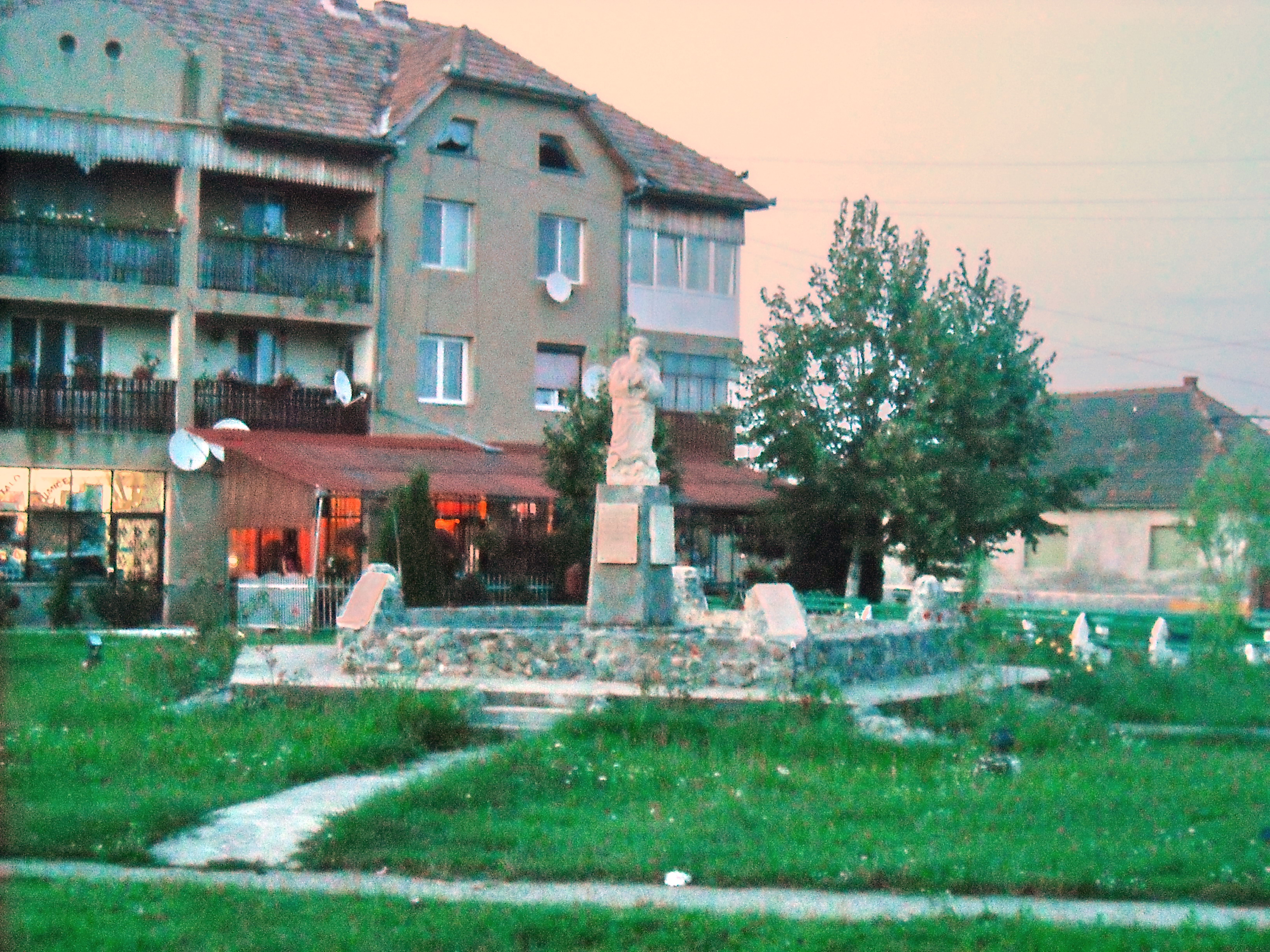 fountain with an angel that gave its name to the village of Engelsbrunn (Fântânele), Romania